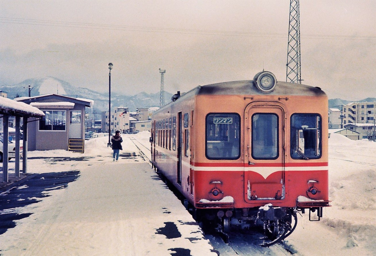 Ōdate Station